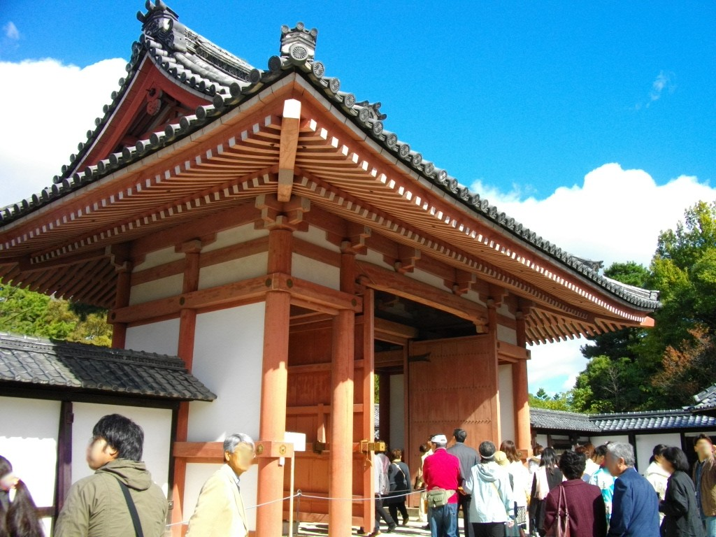 Genki-Mon(Gate)